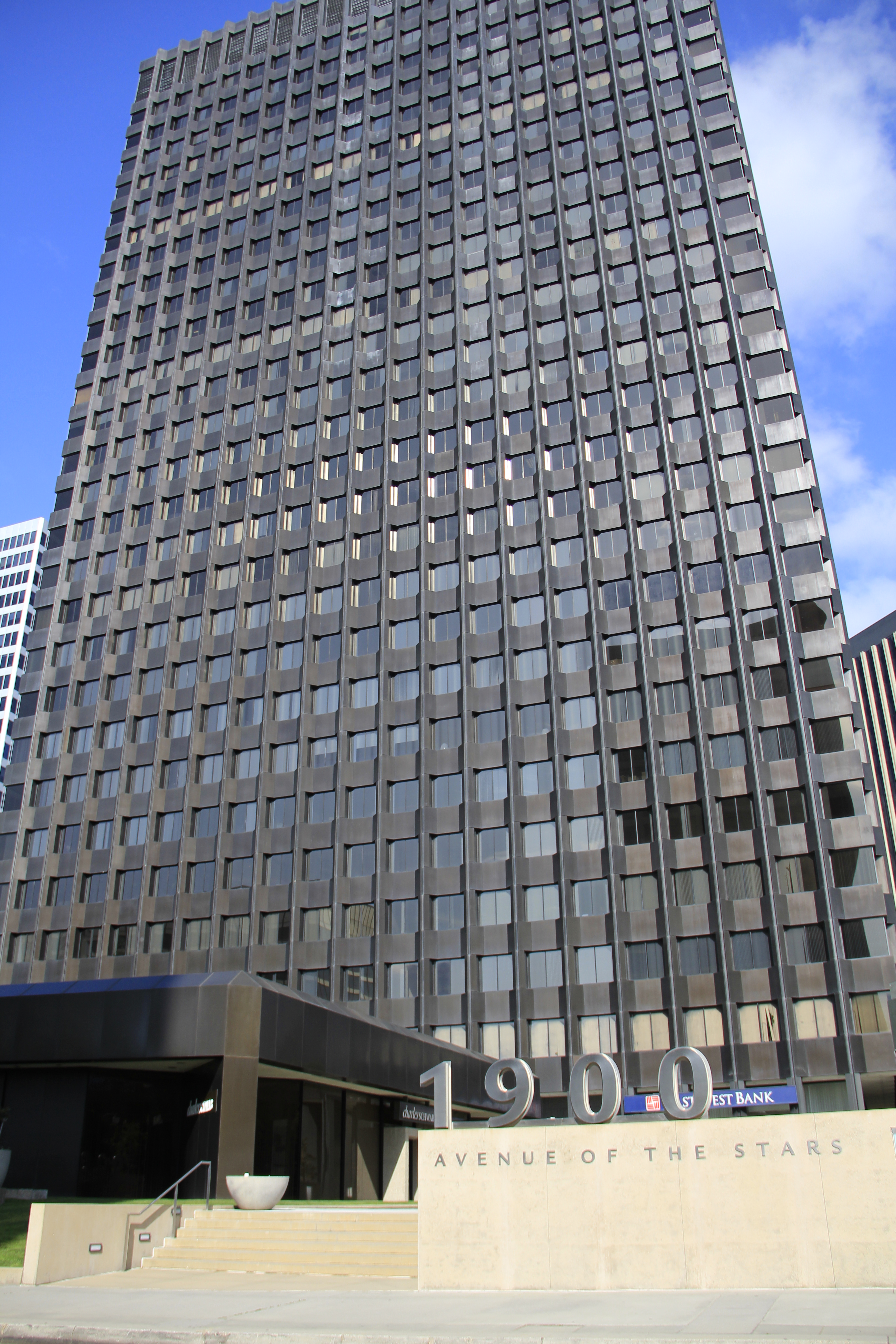 1900 Avenue of the Stars, Los Angeles, CA. This building features as a lawyers office in the tv-series episode "Columbo and the Murder of a Rock Star" (1991).